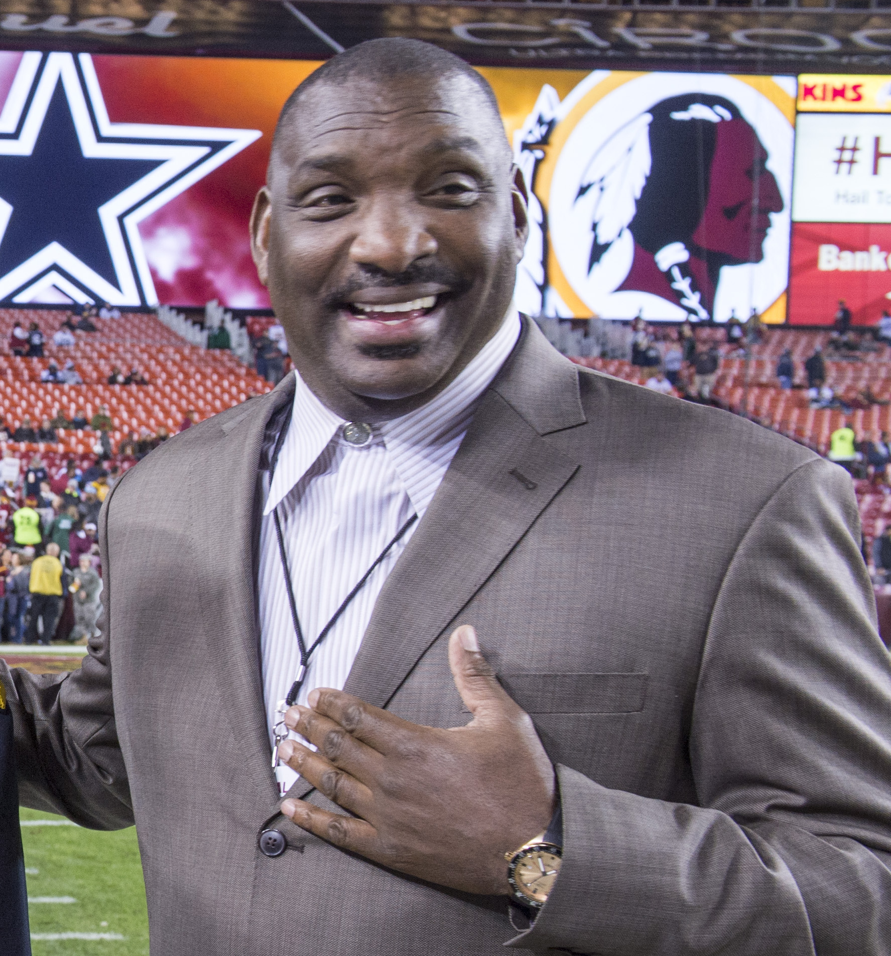 Washington Redskins’ front office personnel executive, Doug Williams, posing for a photo with U.S. Army Chief of Staff General Mark A. Milley, on December 7, 2015 during a football game with the Dallas Cowboys.